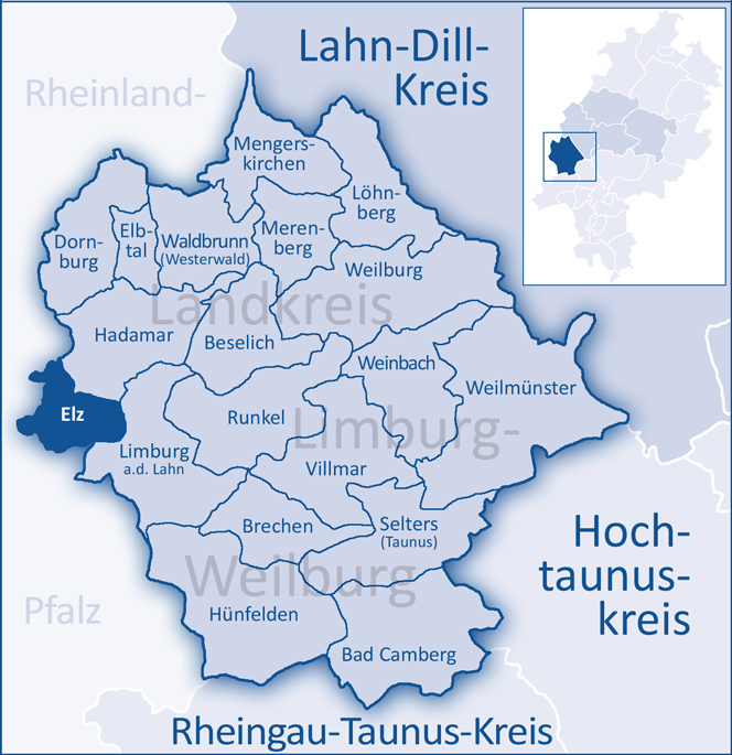 The map shows a district in the area of Limburg-Weilburg